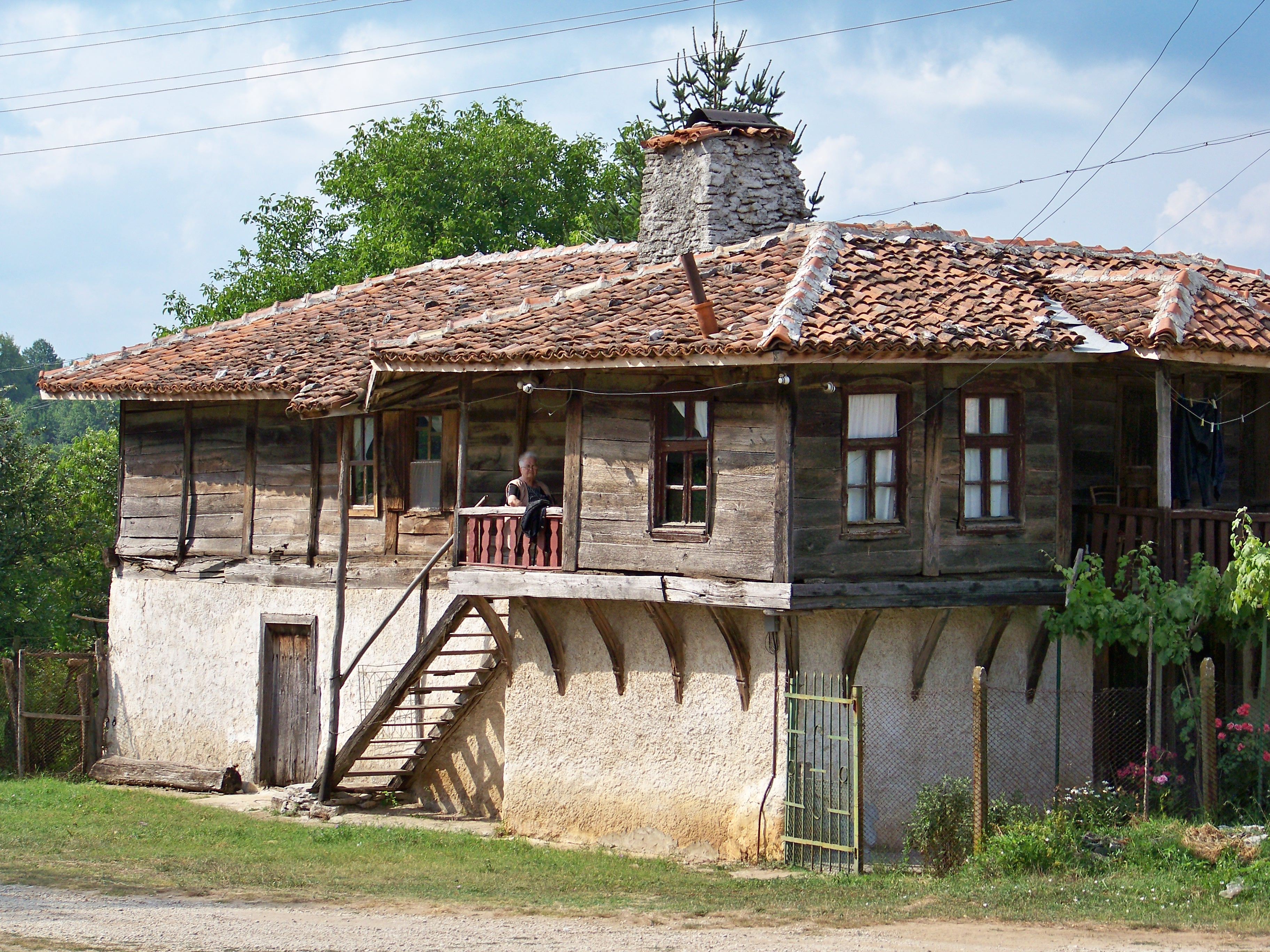 Brashlyan is a village in southeastern Bulgaria, part of Malko Tarnovo municipality